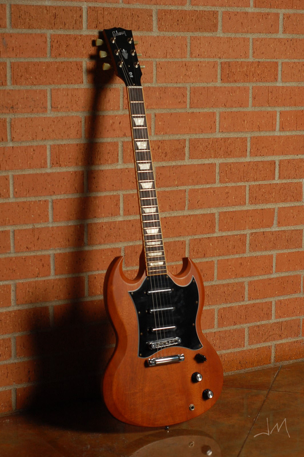 My friend Justin is going to be selling his Gibson SG Special Edition on eBay soon. I did a few product photos for him. SB-28 bounced into umbrella at full power.